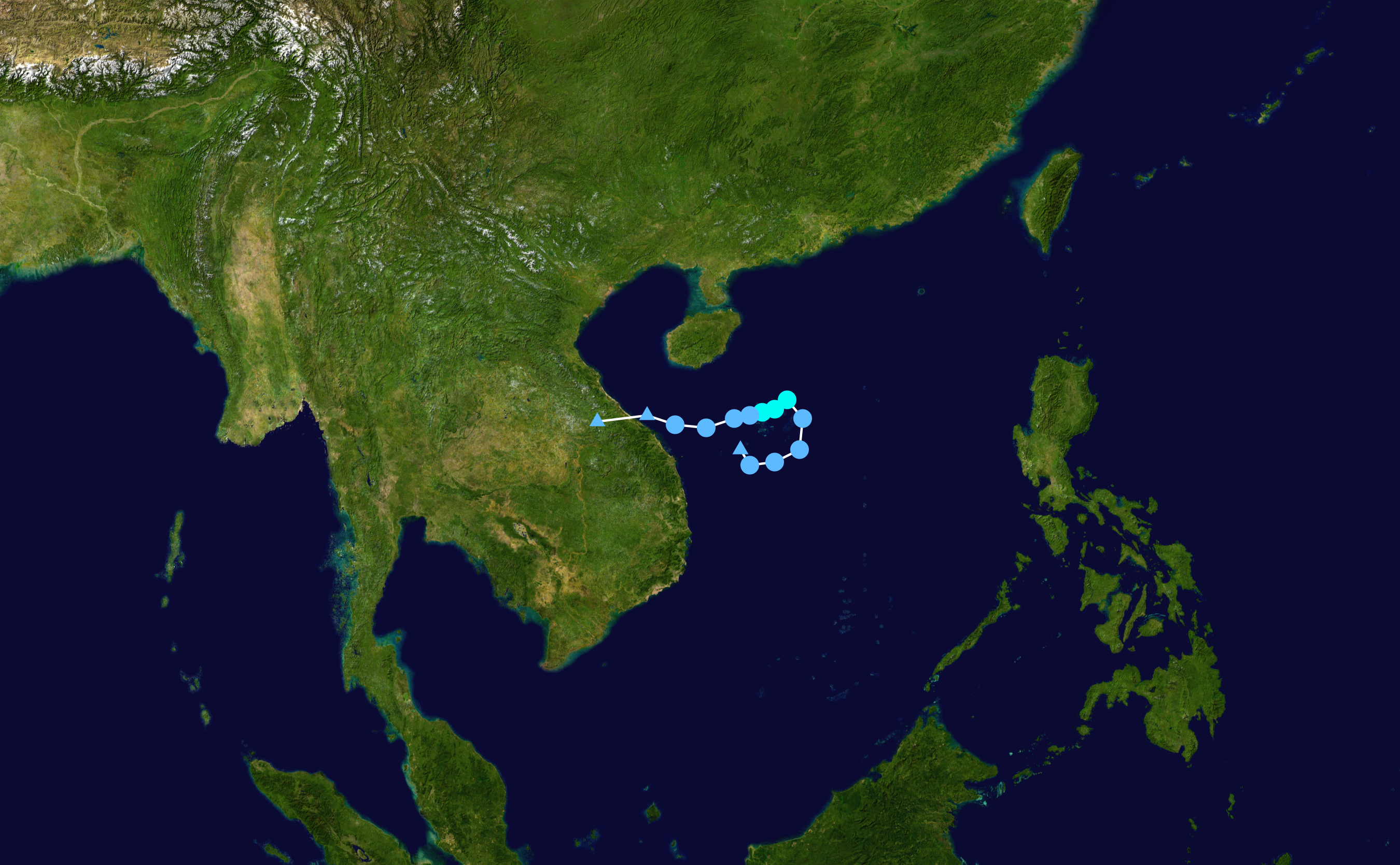 Track map of Tropical Storm Haitang of the 2011 Pacific typhoon season. The points show the location of the storm at 6-hour intervals. The colour represents the storm's maximum sustained wind speeds as classified in the Saffir–Simpson scale (see below), and the shape of the data points represent the nature of the storm, according to the legend below. Saffir–Simpson scale Tropical depression≤38 mph≤62 km/h Category 3111–129 mph178–208 km/h Tropical storm39–73 mph63–118 km/h Category 4130–156 mph209–251 km/h Category 174–95 mph119–153 km/h Category 5≥157 mph≥252 km/h Category 296–110 mph154–177 km/h Unknown Storm type Tropical cyclone Subtropical cyclone Extratropical cyclone / Remnant low / Tropical disturbance / Monsoon depression